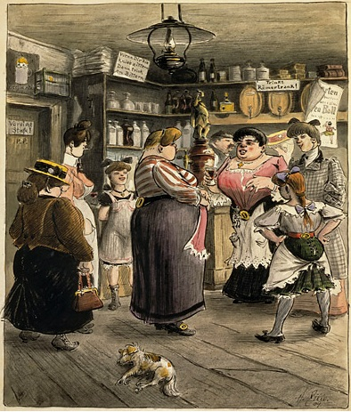 Women in pub